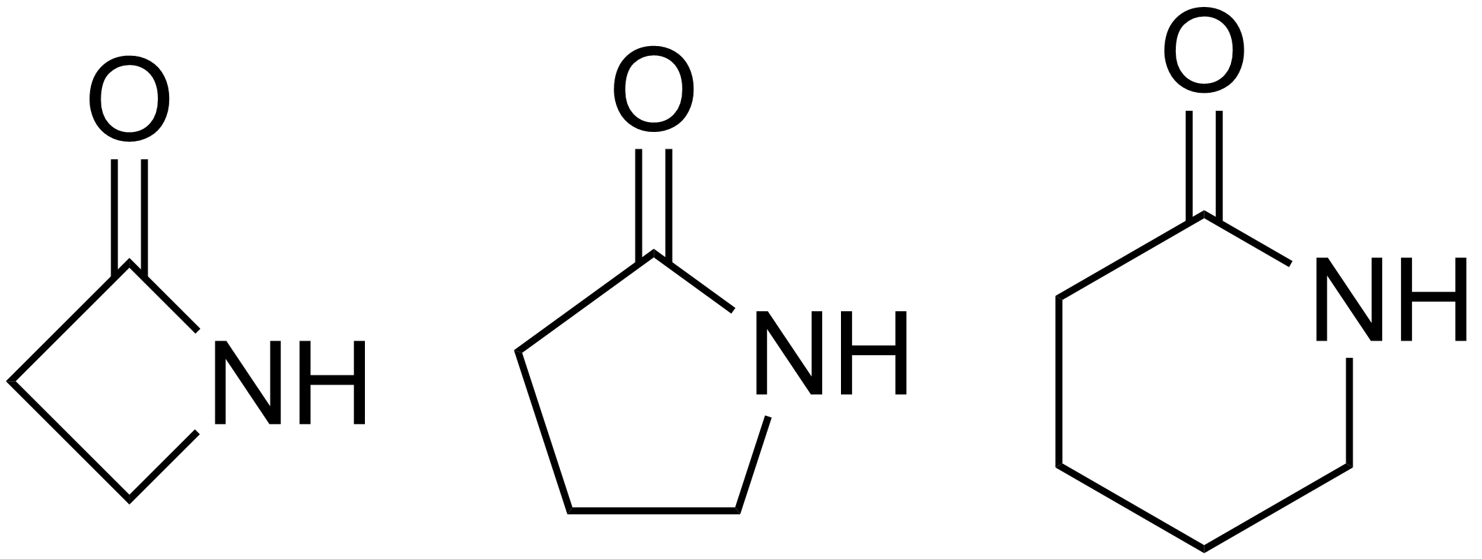 Chemical structure of several simple lactams: beta-lactam (left), gamma-lactam (center), delta-lactam (right)